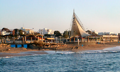 Beach of Nahariya, Israel. View of the "sail". Under the bridge the river Ga'aton flows into the Mediterranean Sea.